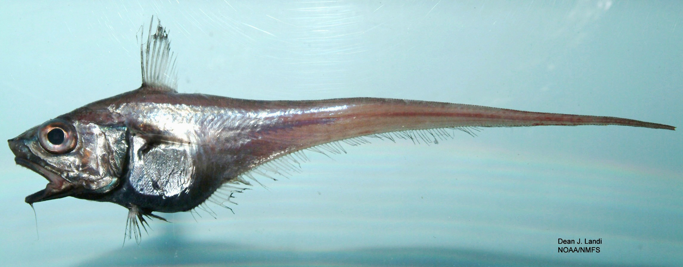 Western softhead grenadier (Malacocephalus occidentalis). Gulf of Mexico.